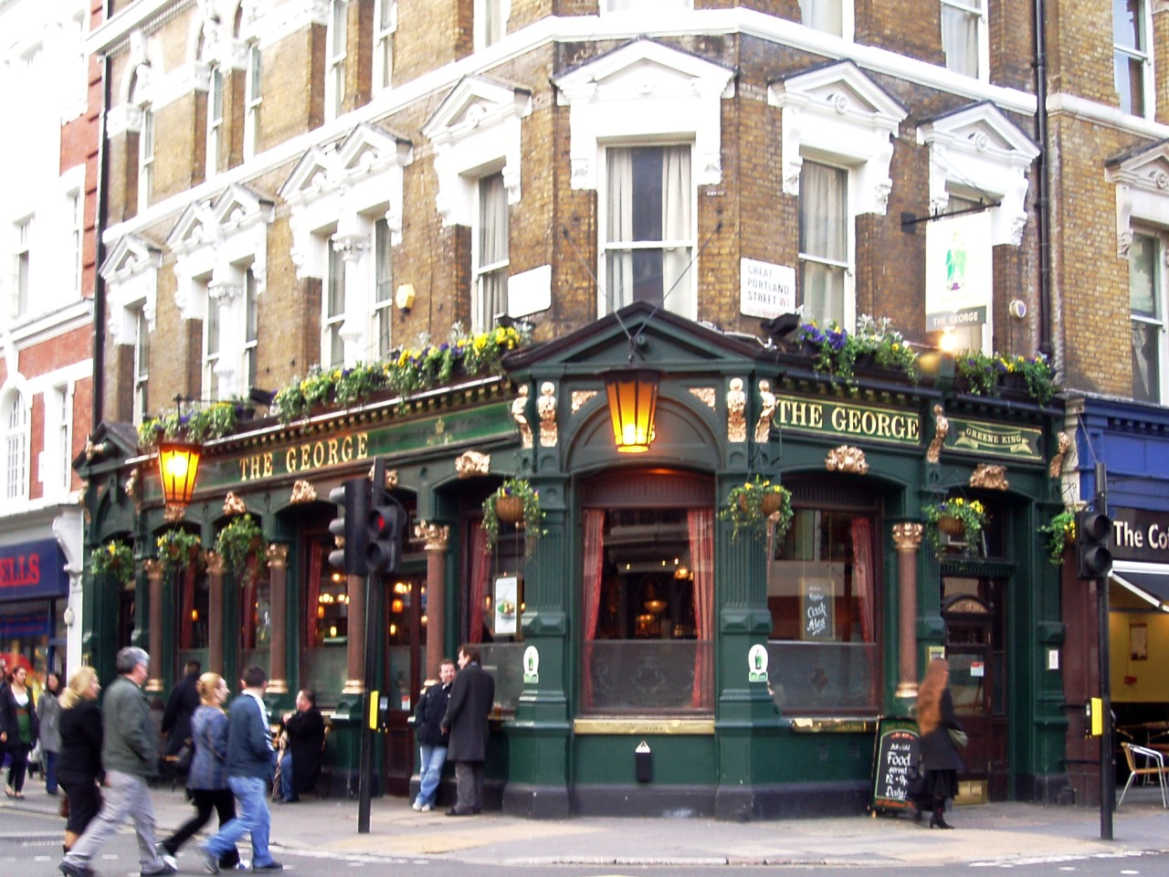 An okay pub, gets busy as expected. Address: 55 Great Portland Street. Former Name(s): The Gluepot. Owner: Greene King (website). Links: Fancyapint Beer in the Evening Qype Dead Pubs (history)